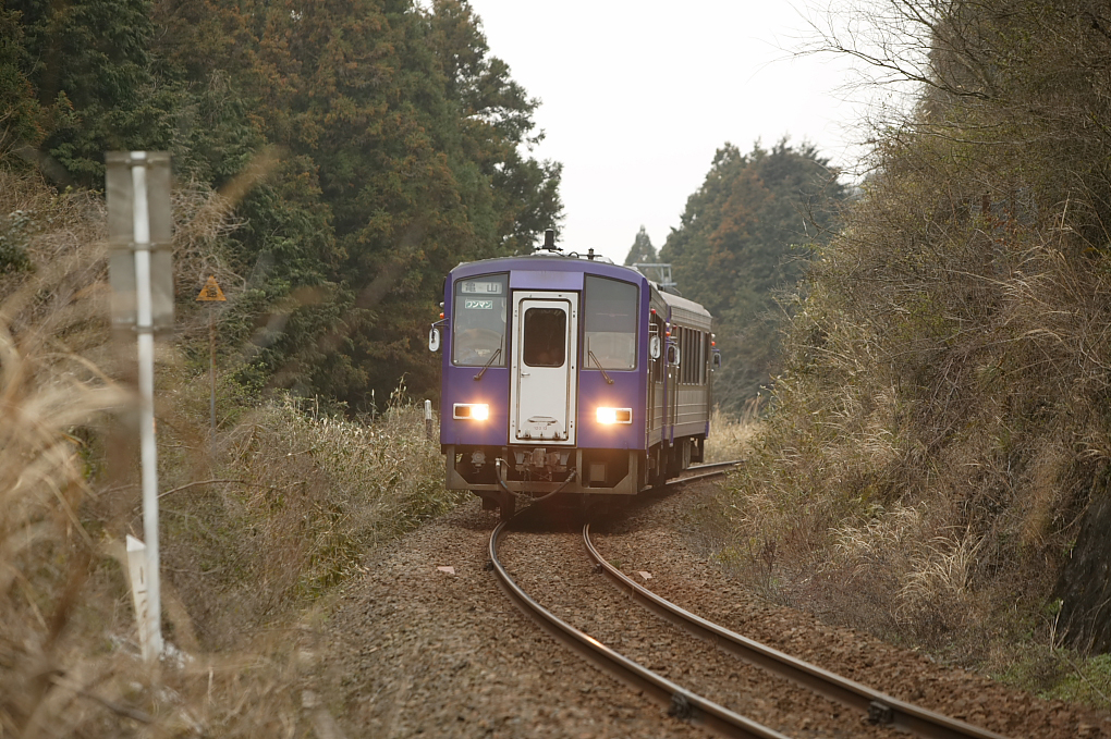 JR West Kiha 120 series DMU of Kameyama Railway Dept. on the Kansai Main Line.